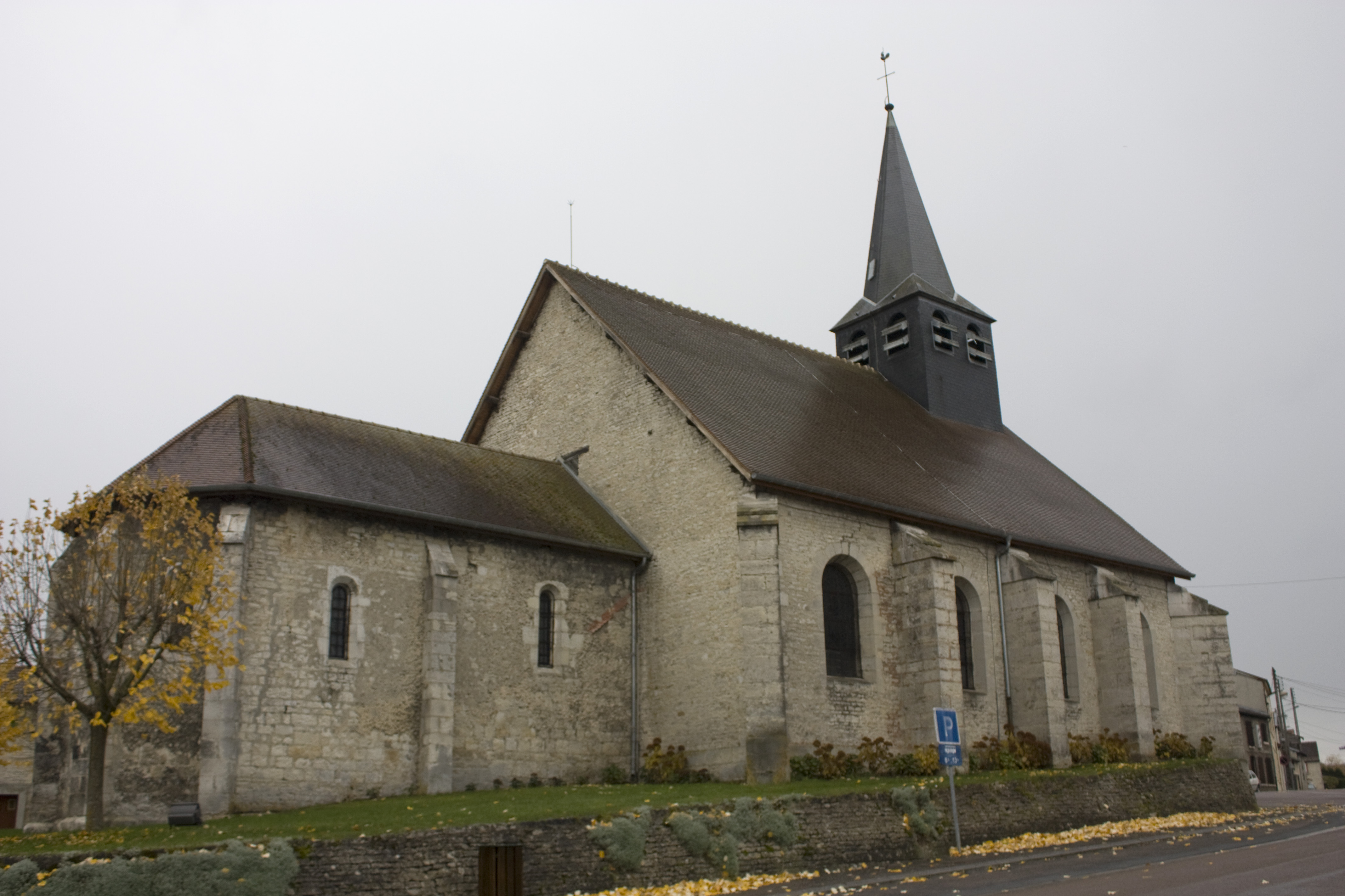 Parish church Saint-Martin, Bayel, , Champagne-Ardenne , France.